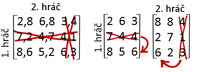 dualmatrix